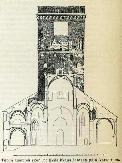 Turku Cathedral cross section to the west. The drawing was made in Helsinki Technical University, acording to the planimetry made by Architecture School, under professor Gustaf Nyström